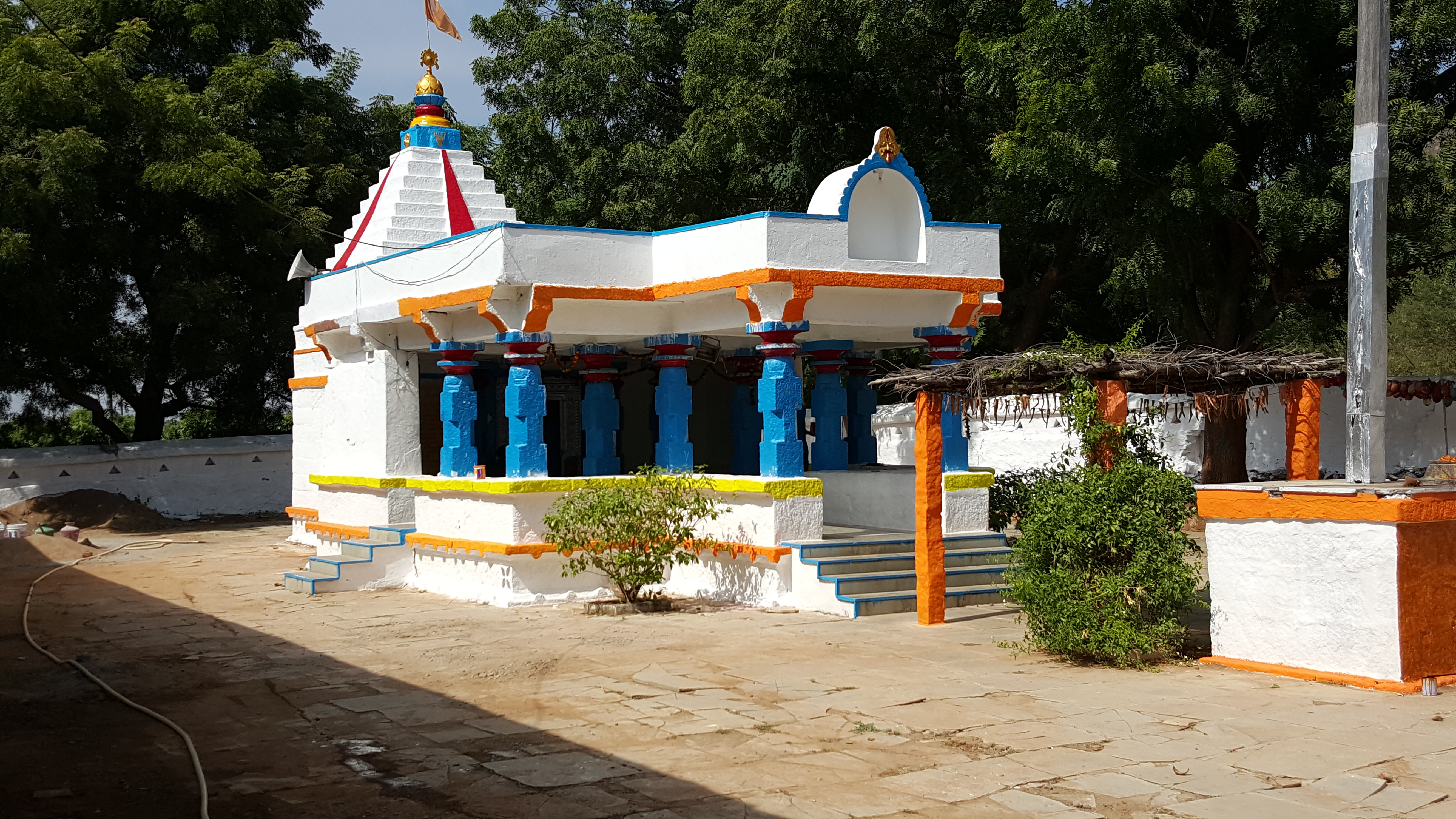 Sri Lakshmi Narasimha Swamy Temple, near Devunipalli hill